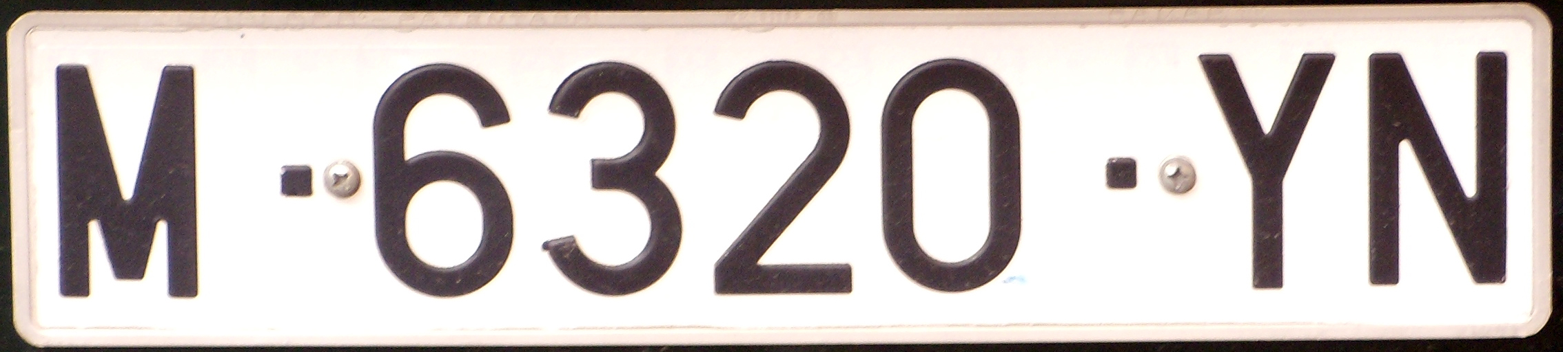 Spanish licence plate, old version (1971-2000)